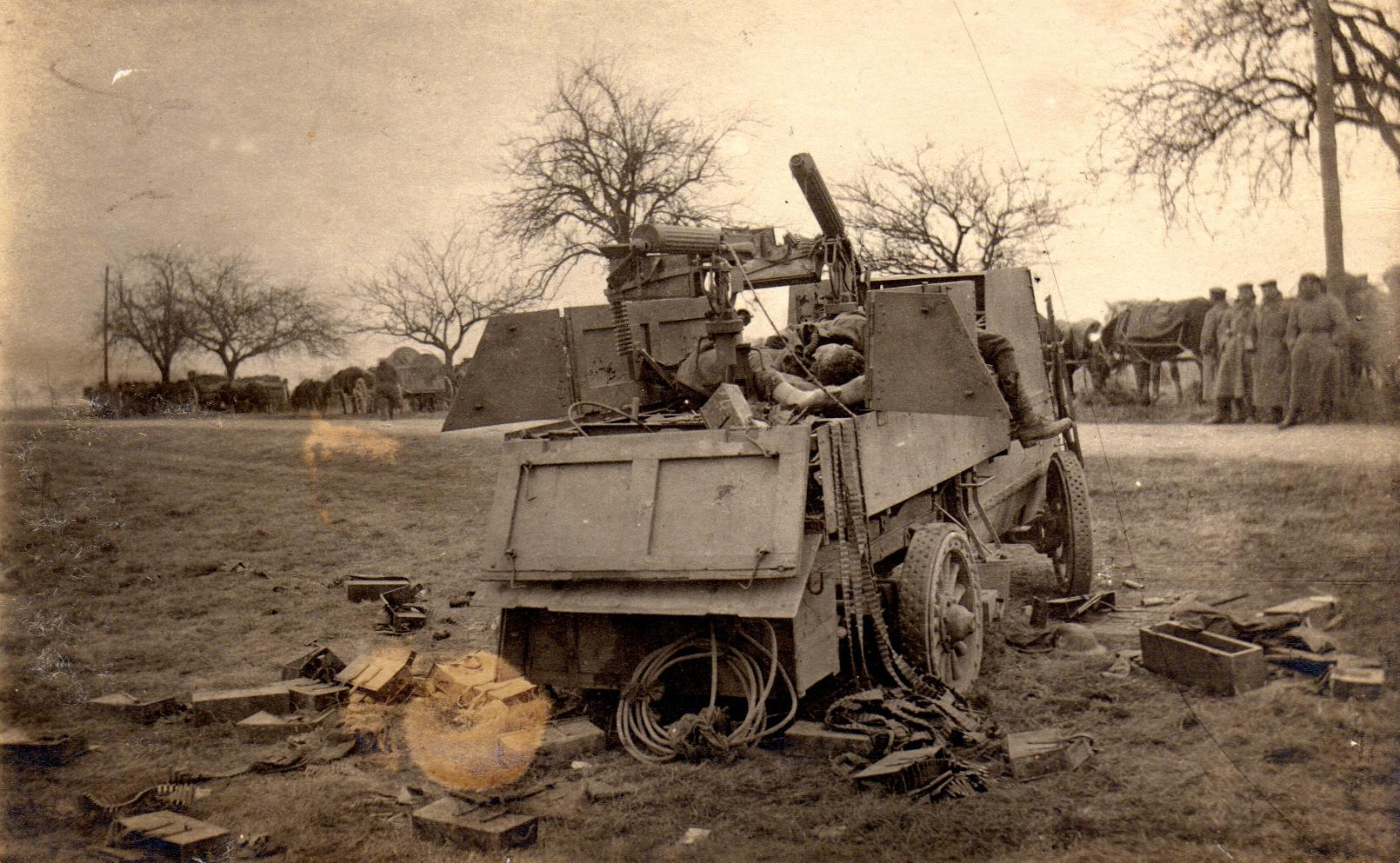 Canadian Armoured Autocar, captured by German forces on the western front. Shown in German photo are dead Canadians with German soldiers standing in background.